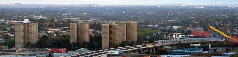 Aerial view of eastern Flemington, Victoria